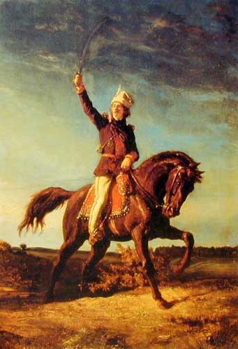 Tadeusz Kościuszko, oil on canvas, 95 x 65 cm, offered on auction by Dom Aukcyjny REMPEX on 2001/08/29 for 88000 zł.